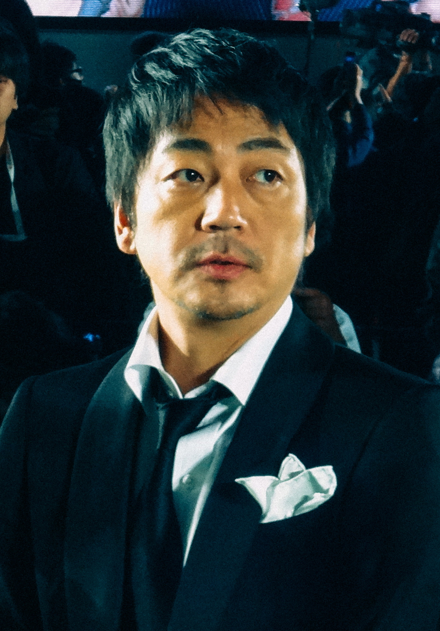 26th Tokyo International Film Festival: Nao Ōmori from Disregarded People